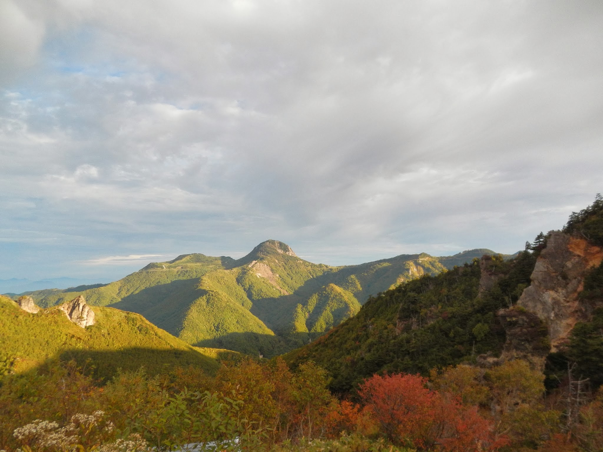 The North view from Manza Pass. Mount Kasagatake in the center. 万座峠から北北西の眺望。奥の鋭鋒は笠ヶ岳。